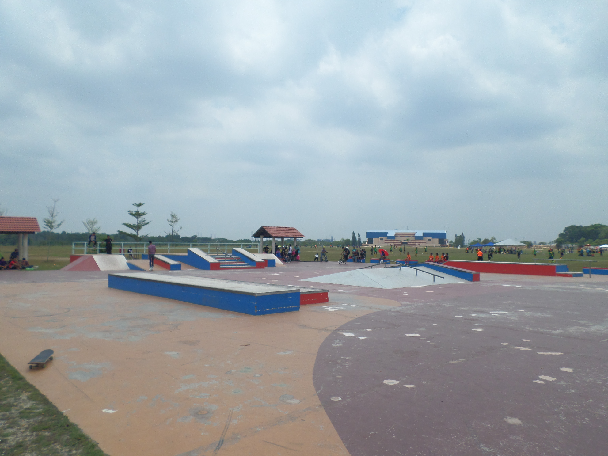 Pasir Gudang Extreme Park, Pasir Gudang, Johor Bahru, Johor, Malaysia